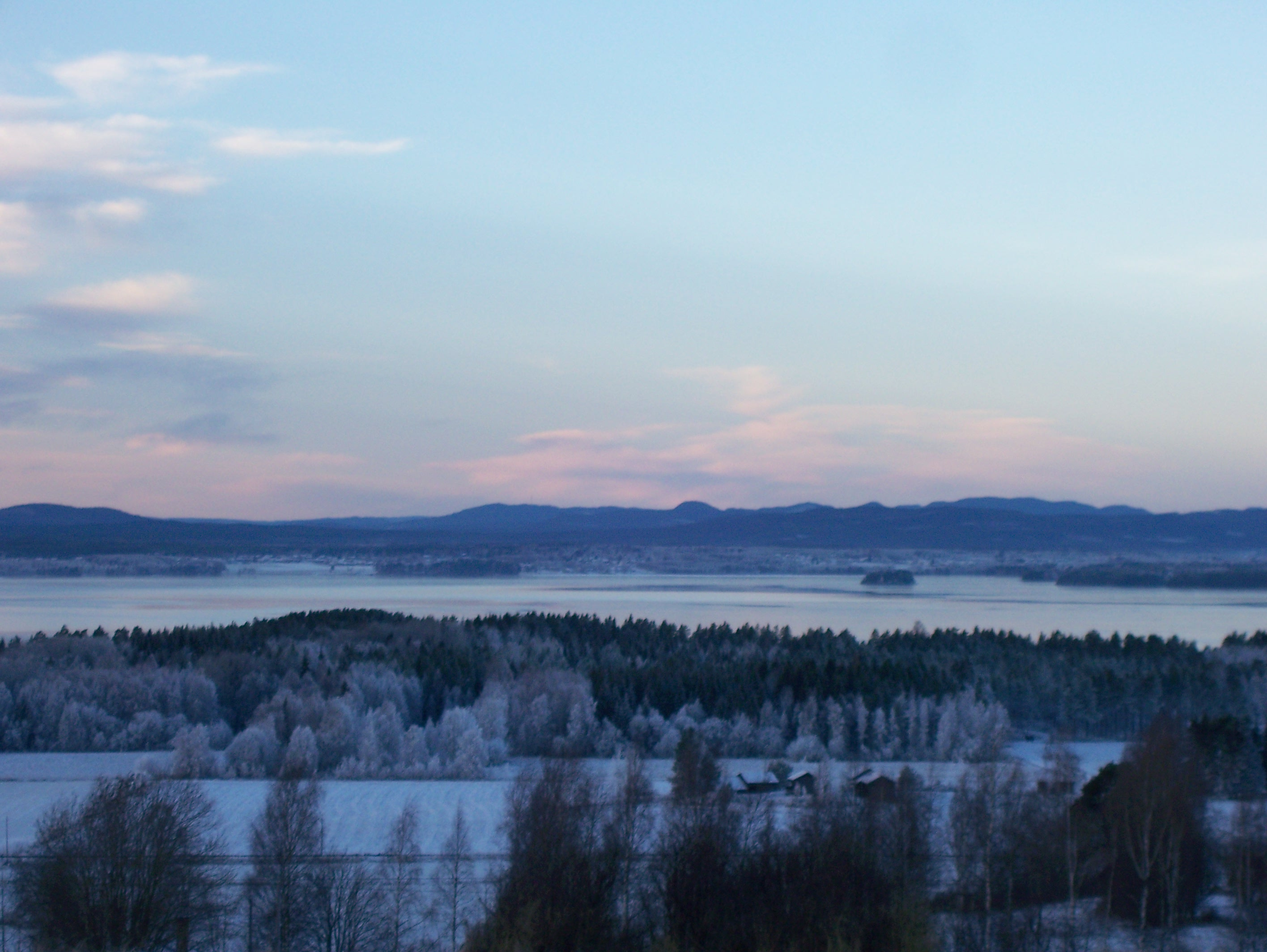 View of Lake Siljan.